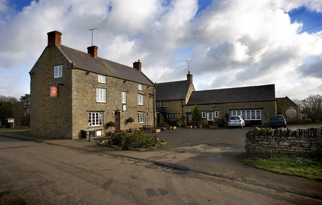 The Three Conies Pub. Thorpe Mandeville. A Hook Norton Establishment.